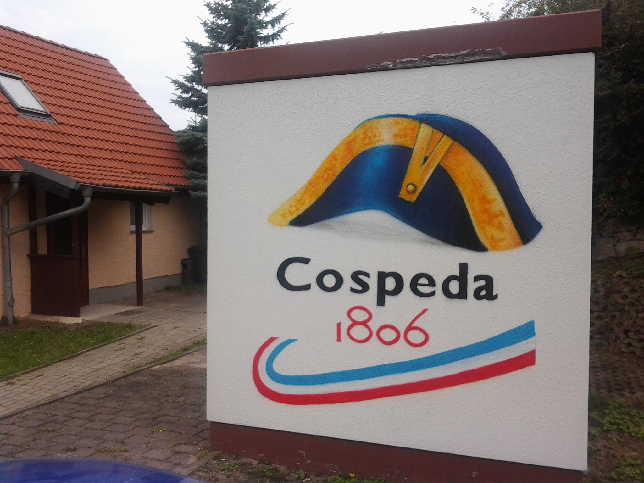 Mural showing the hat of Napoleon in Cospeda, a village near Jena, where the battle of Jena took place on October 14, 1806